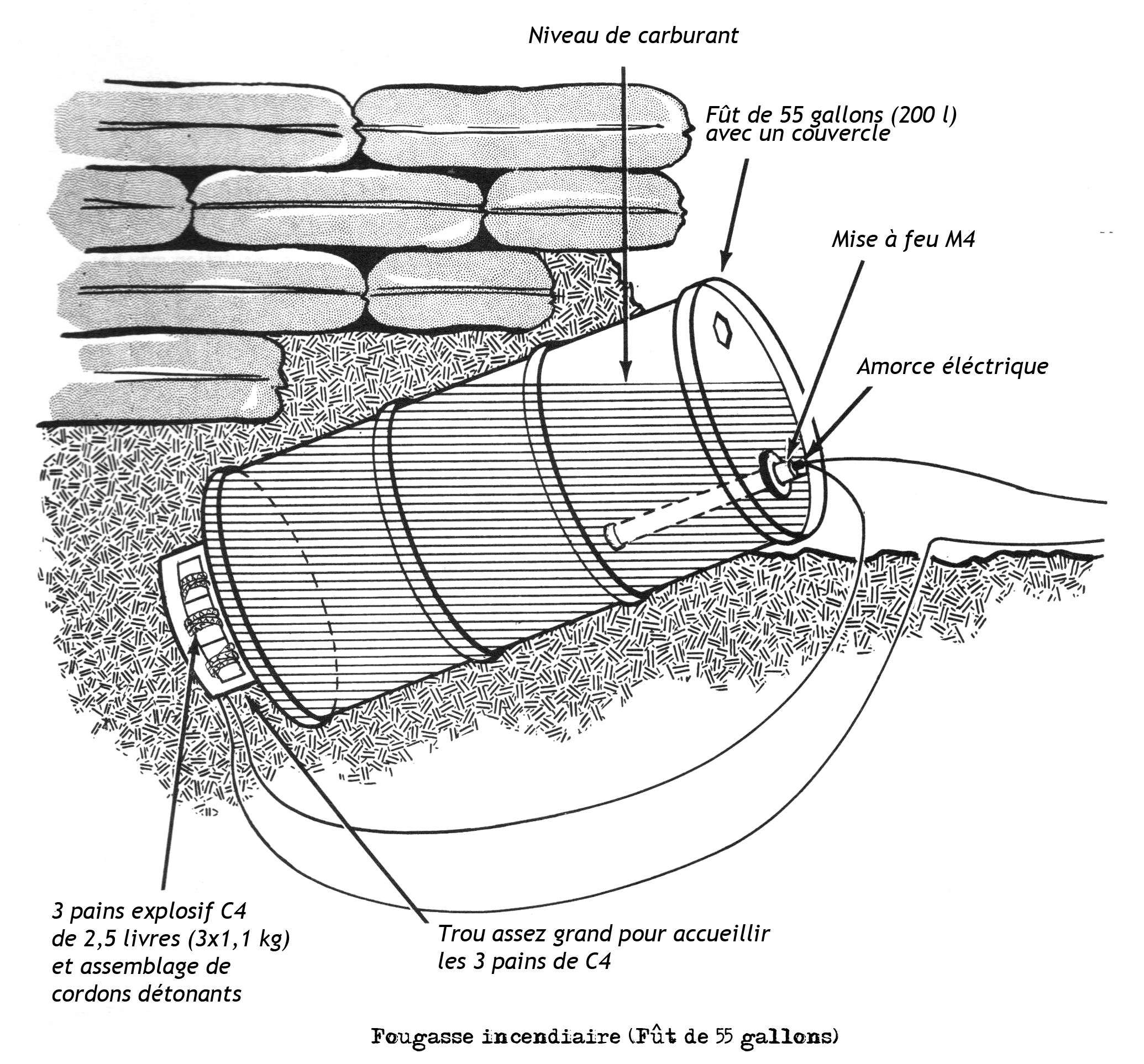 Diagram of a Flame Fougassse made with a 55 gallon drum as a battlefield expedient.